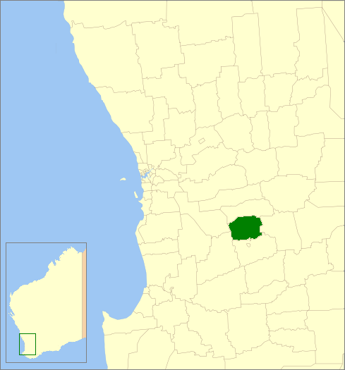 Description=Location of the Local Government Area in Western Australia